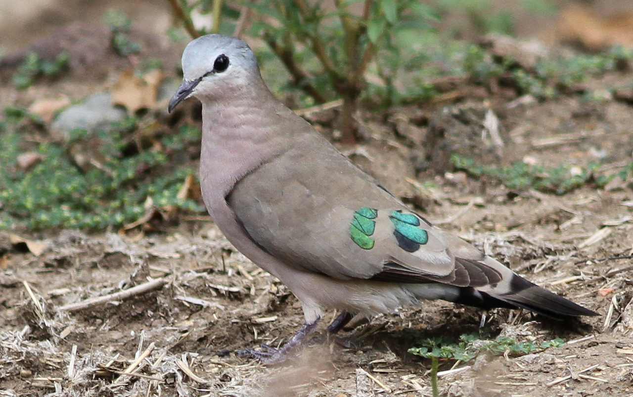 Emerald-spotted Wood Dove, Turtur chalcospilos in Kruger National Park